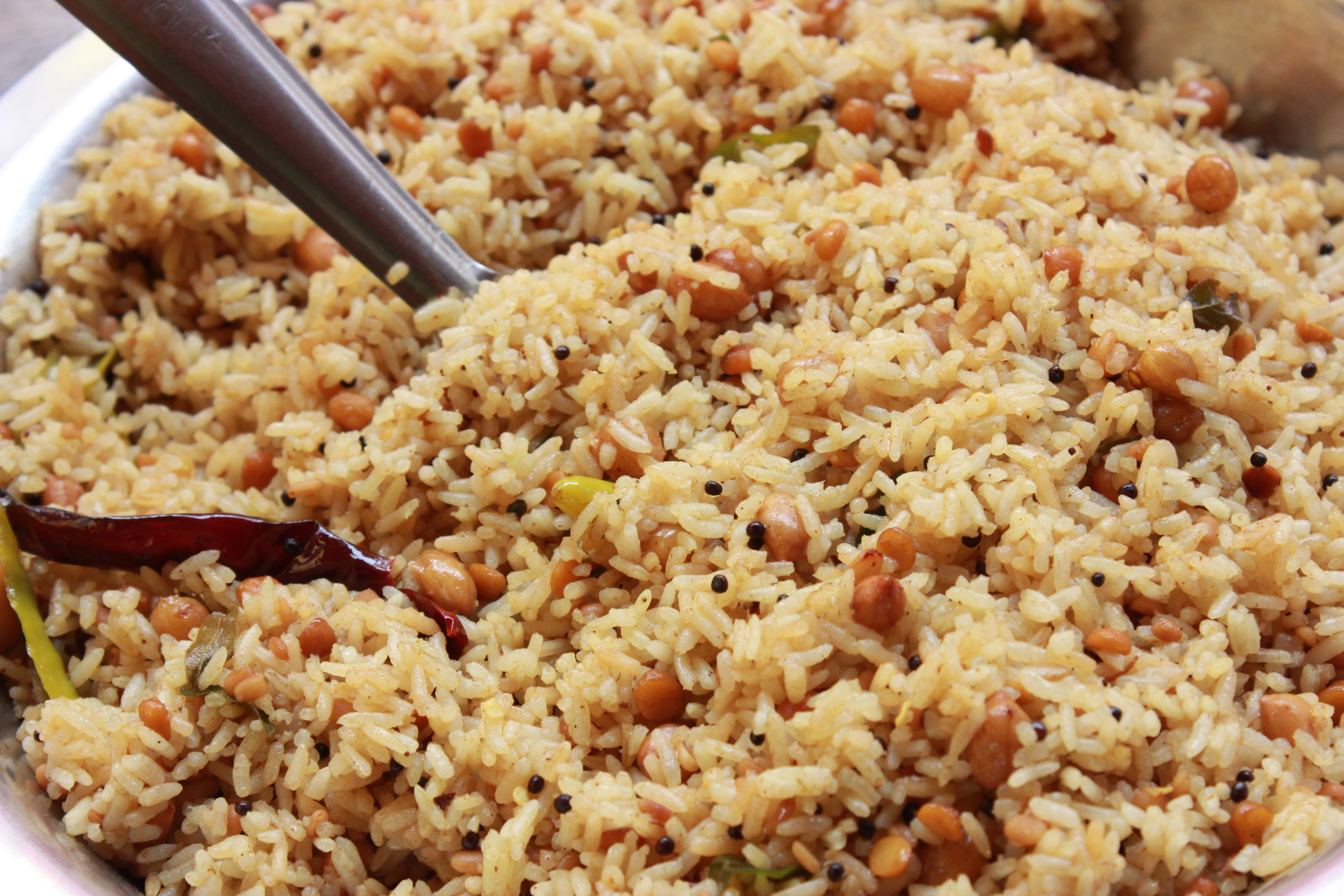 Pulihara, Telugu special dish.